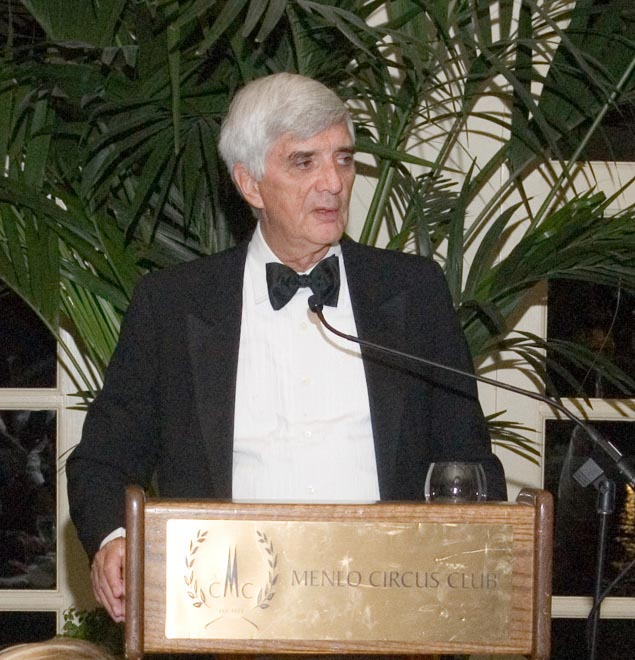 Photograph of Robert W. Lucky at the 2010 Marconi Society Symposium, Menlo Park, California, October 15, 2010.